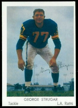 A 1959 promotional image of Los Angeles Rams player George Strugar.